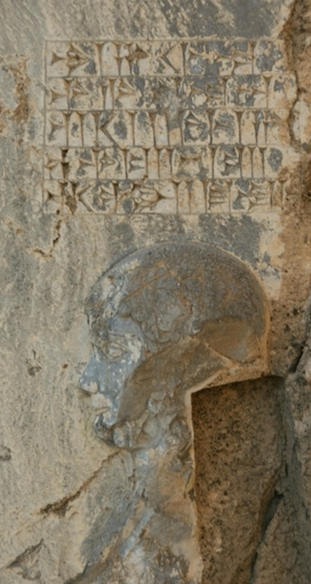 Behistun Relief, Assina